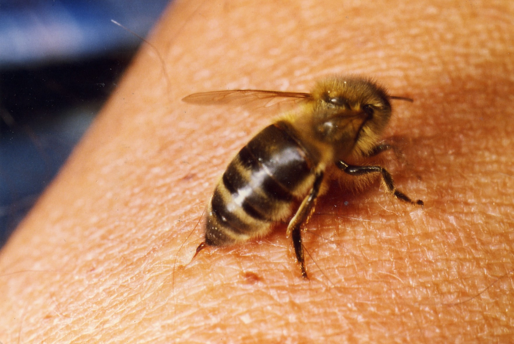 bee-sting (Apis mellifera mellifera)